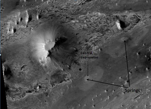 hydrothrmal springs in vernal crater, as seen by hirise. Location is 5.6 degrees north latitude and 4.4 degrees west longitude. Image was taken by the Mars Reconnaissance Orbiter's HiRISE. The HiRISE camera was built by Ball Aerospace and Technology orporation and is operated by the University of Arizona. Image courtesy NASA/JPL/University of Arizona.